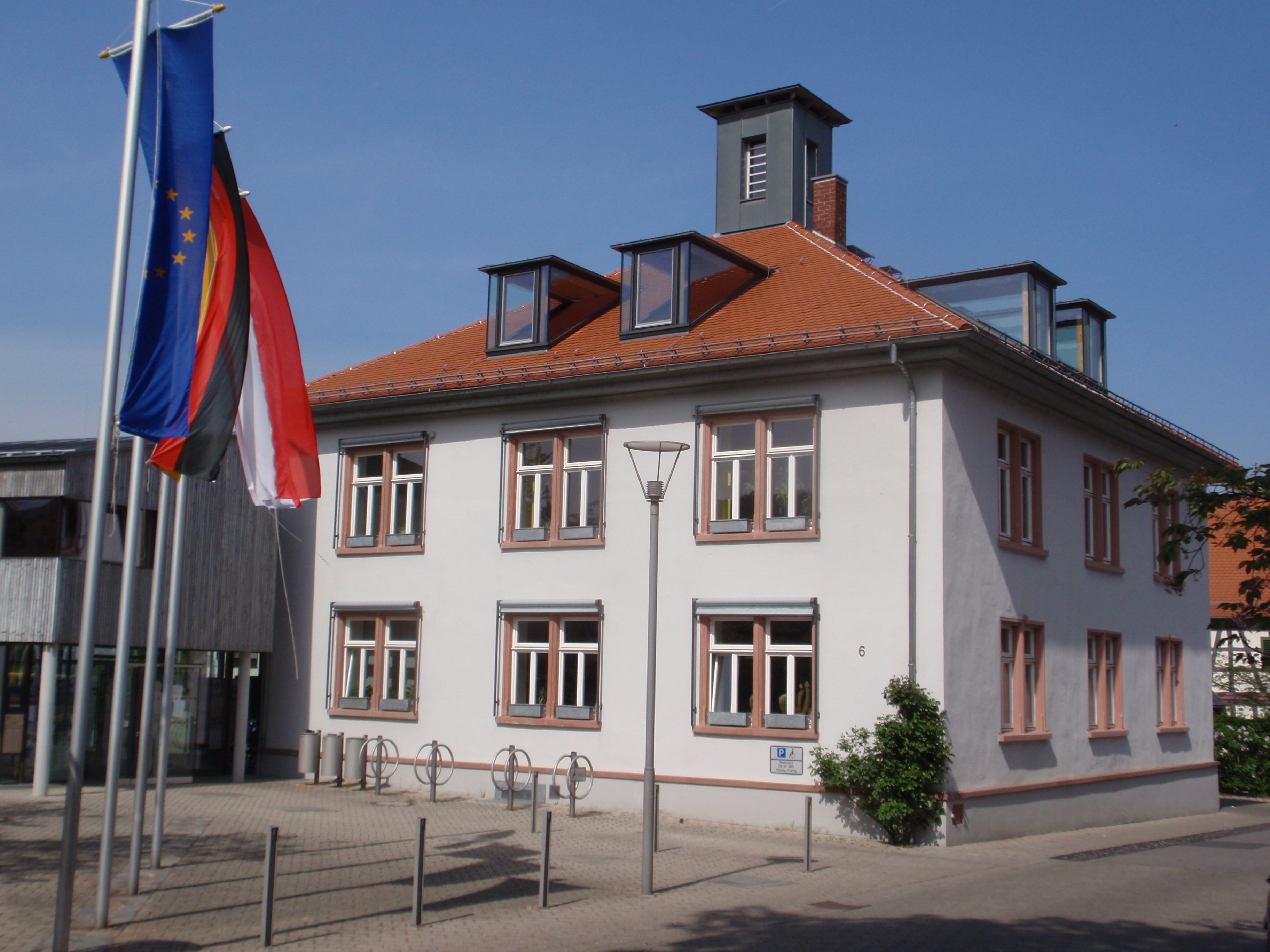 town hall of Alsbach, Bergstraße (Germany)